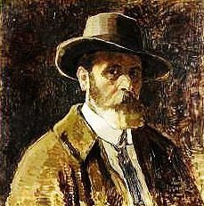 Selfportrait